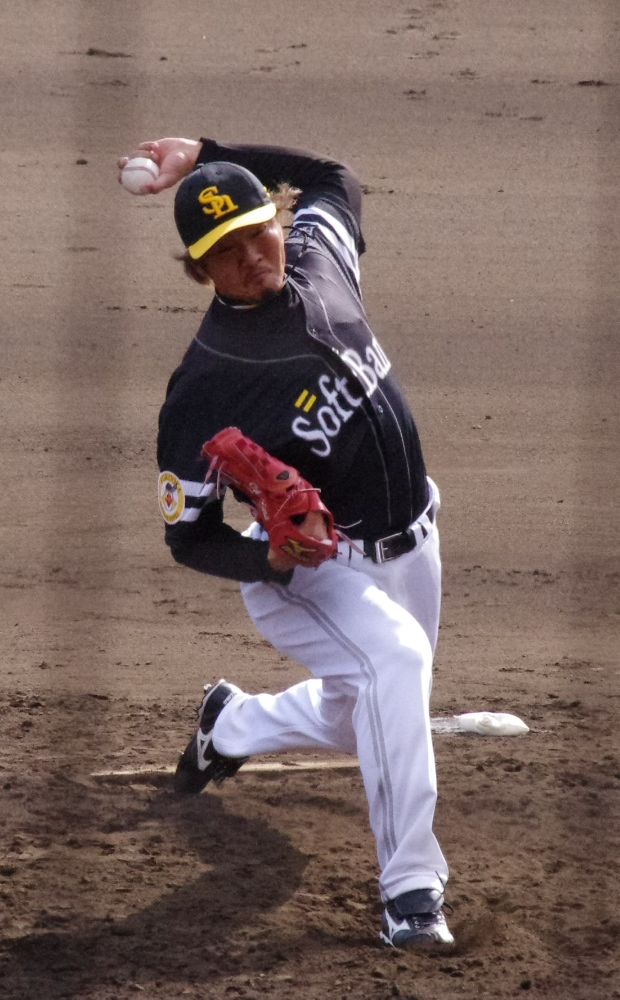 Hideki Okajima, pitcher of the Fukuoka SoftBank Hawks, at Hiratsuka Baseball Stadium.